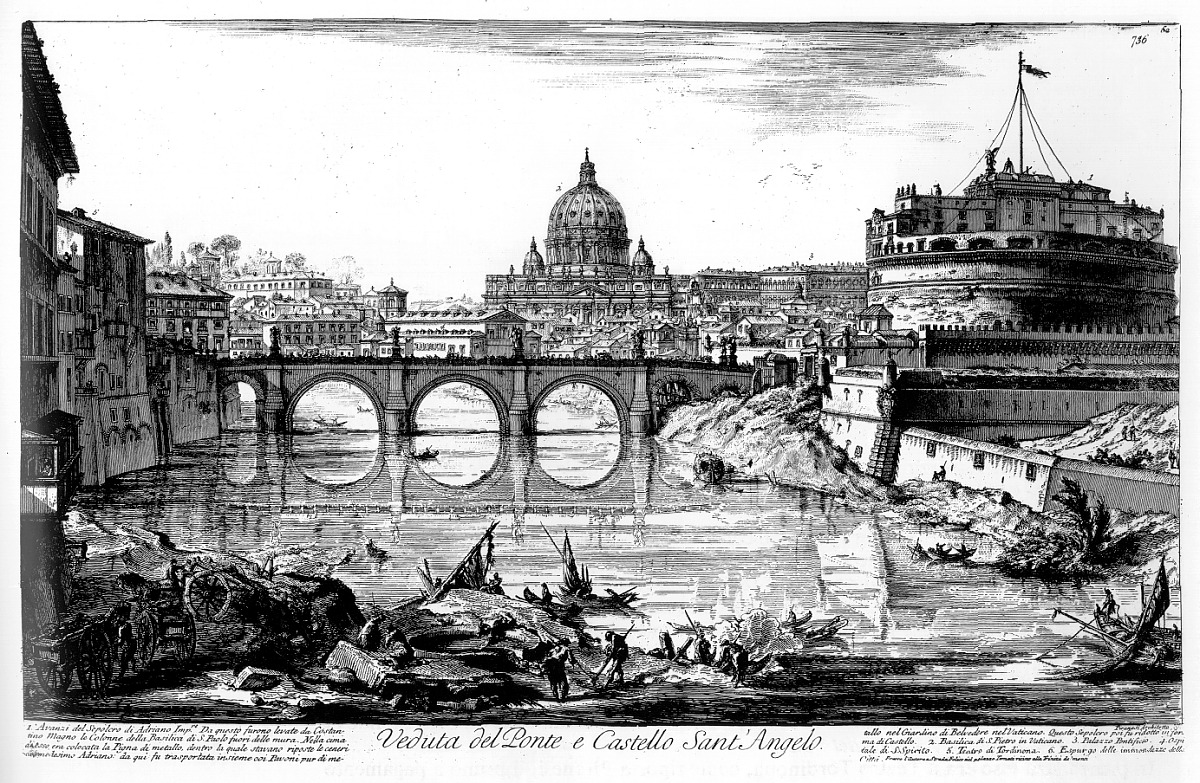 Piranesi's view of Castel Sant'Angelo from North